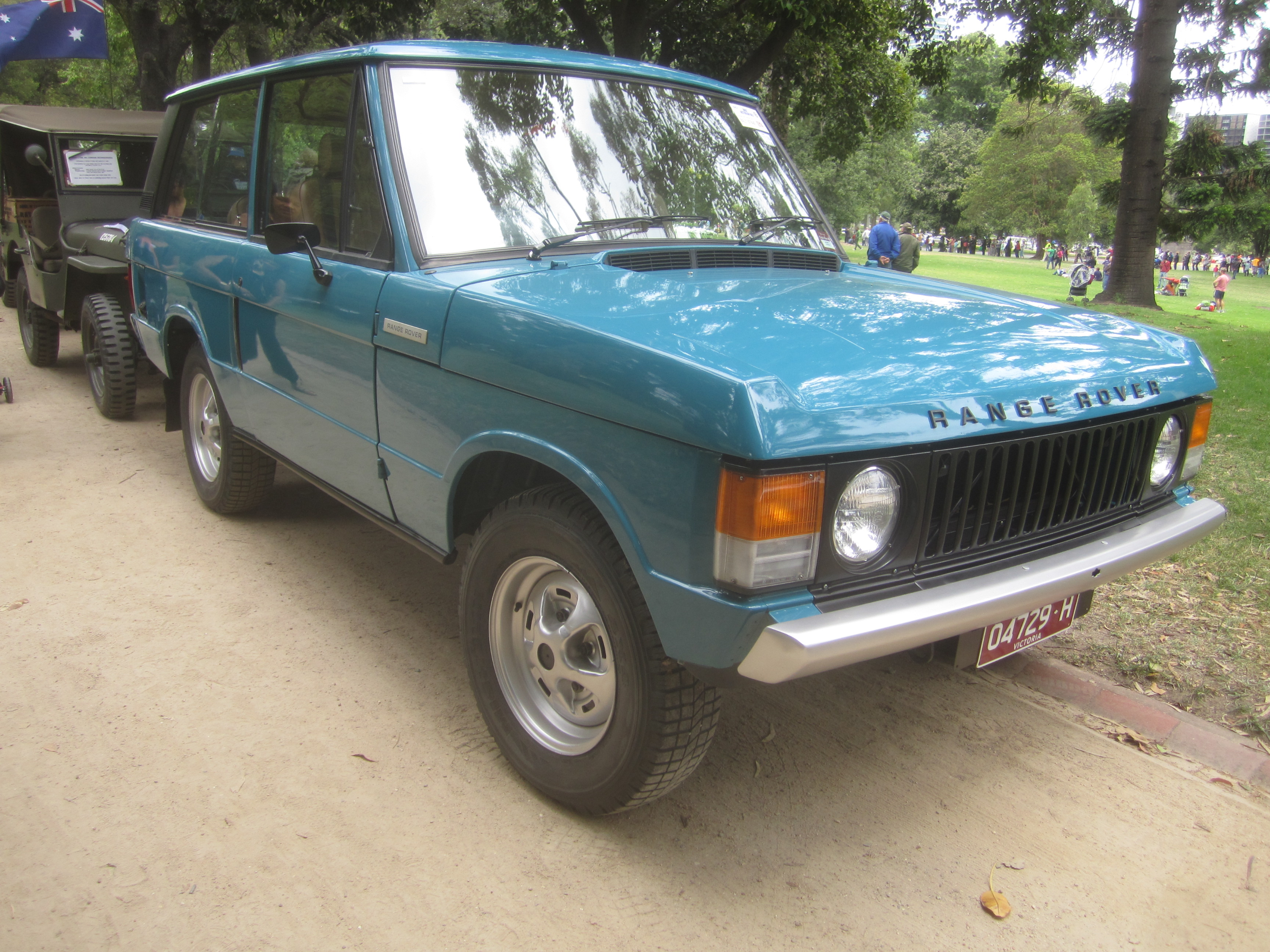 The Range Rover was a luxury 4X4, the 1st generation, known as the Classic was built from 1970-96. They had style, comfort, speed, outstanding offroad as well as on road ride Little changed in the 1st decade, originally a 2 door, the 4 door was introduced in 1981, and the 2 door discontinued in 1984. It got a revamp in 1986, witha new plastic grille and fuel injection. Engine; 3528cc V8